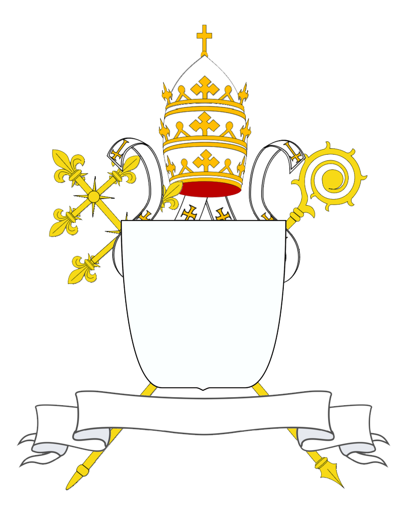 Coat of arms of the Patriarch of Lisbon (fallen into disuse)